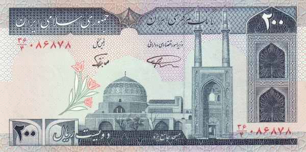 200 IRR banknote (1982 issue)